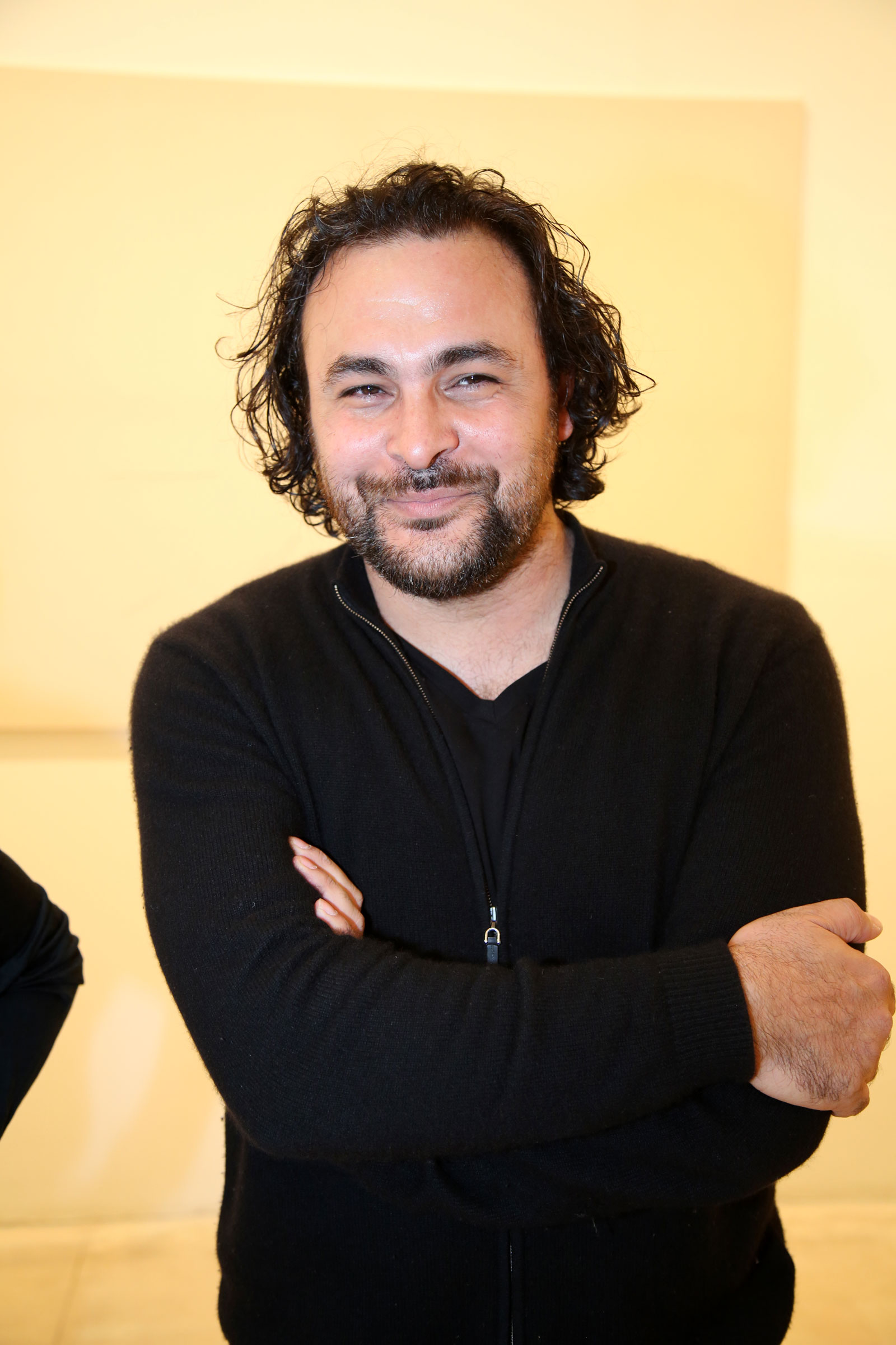 French-Algerian-born artist Kader Attia